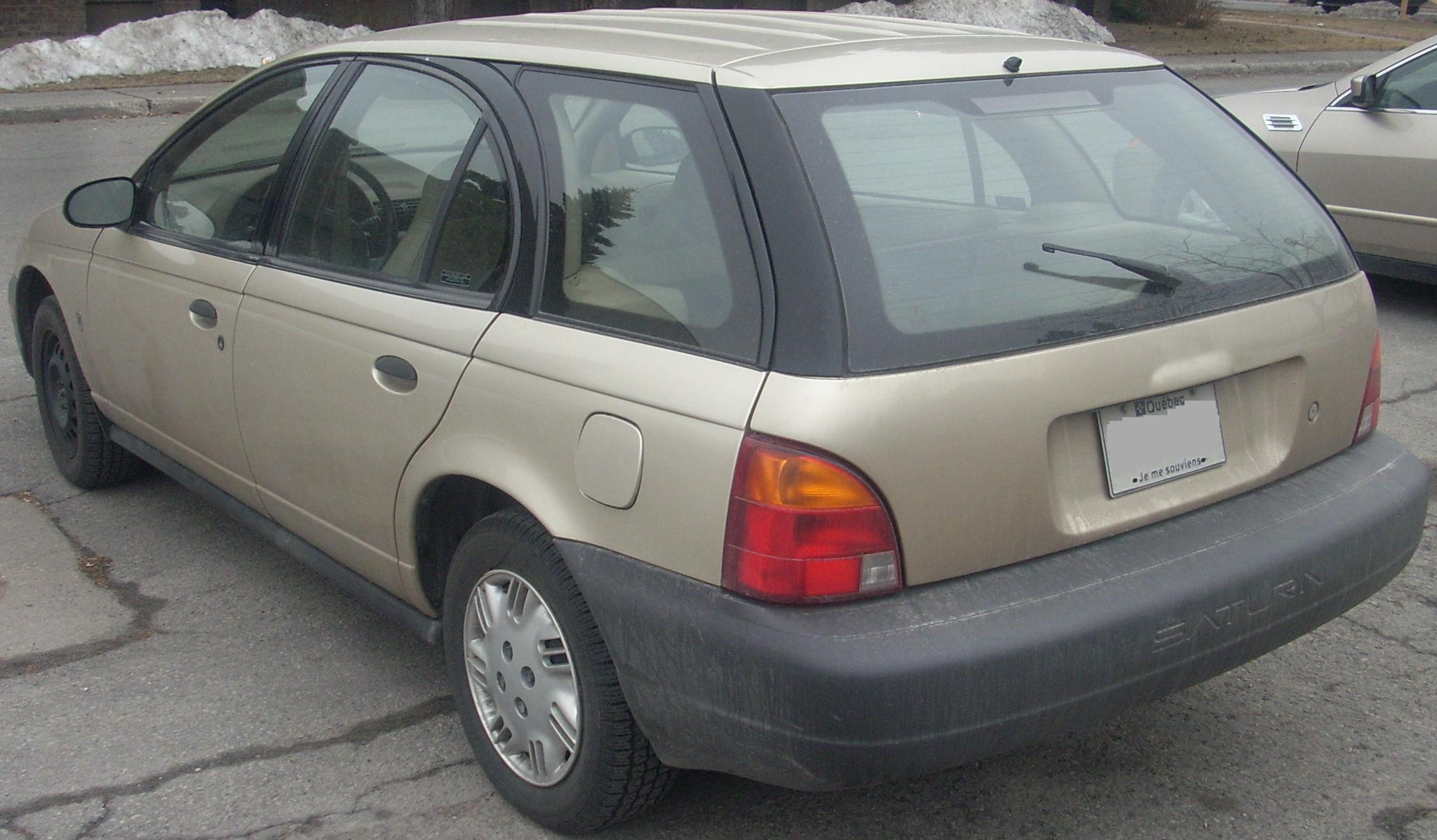 1996-1999 Saturn SW photographed in Pointe Claire, Quebec, Canada.